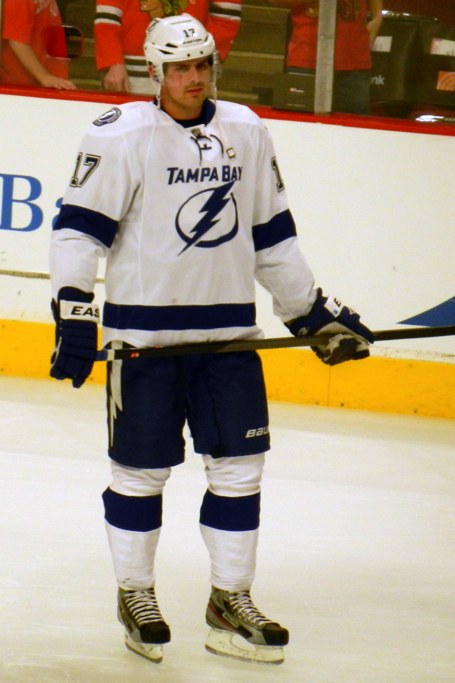 Alexander Killorn with the Tampa Bay Lightning during warm-up before a gamve vs. the Blackhawks at the United Center in Chicago